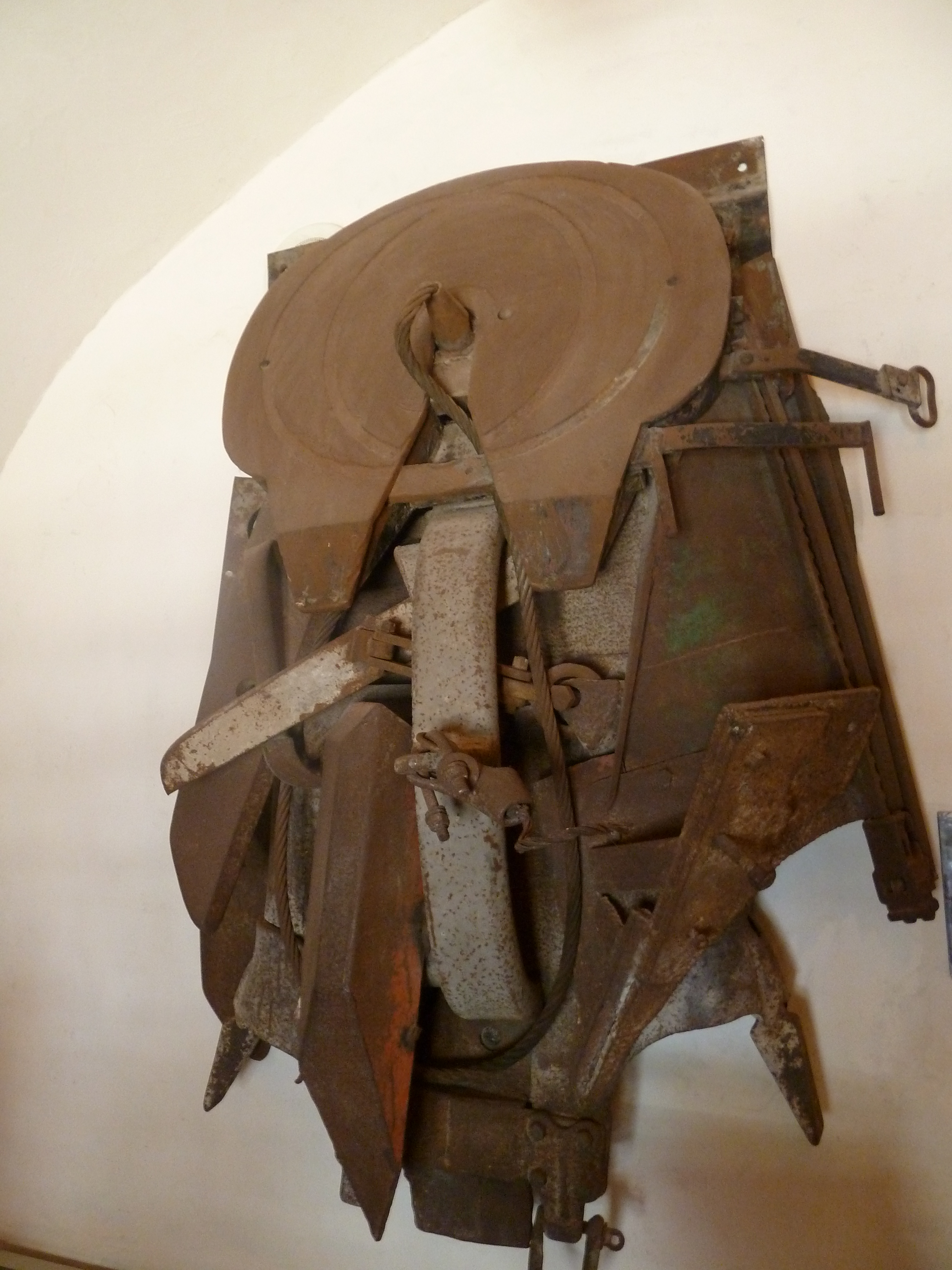 "Lord of the Flies" (Beelzebub), Assemblage of Industrial Iron, 1995, Sculpture by Yaacov Dorchin, displayed at the Ilana Goor Museum, Jaffa